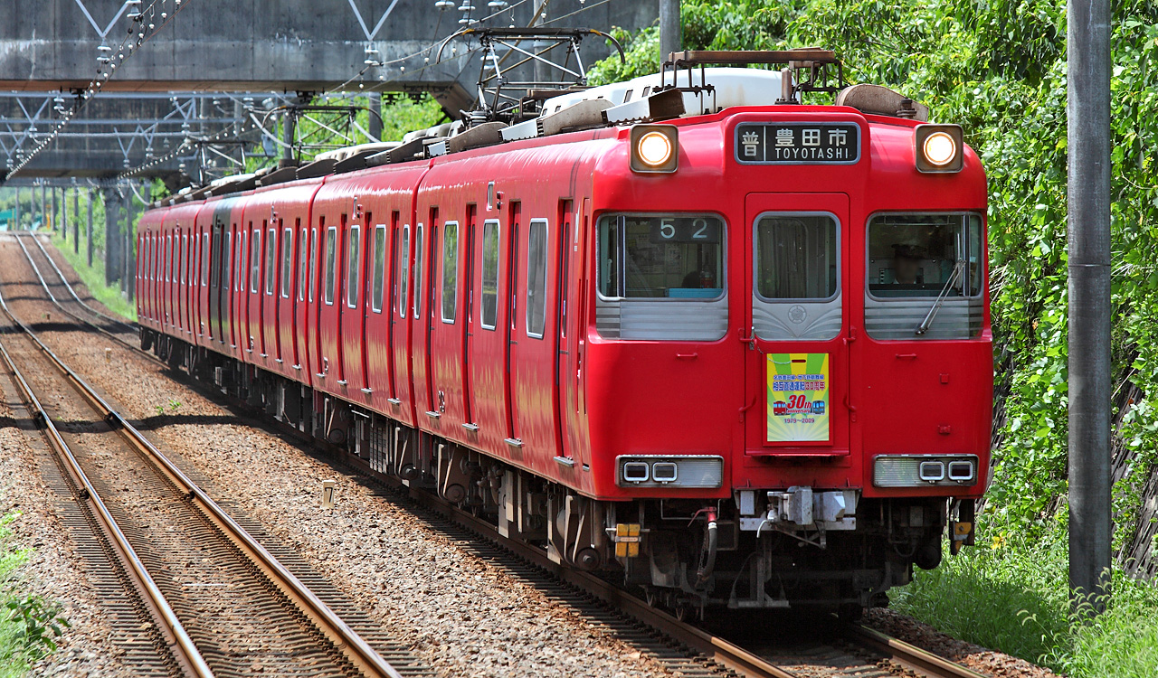 Meitetsu 100 series EMU ( 213F at Jōsui Stn.)